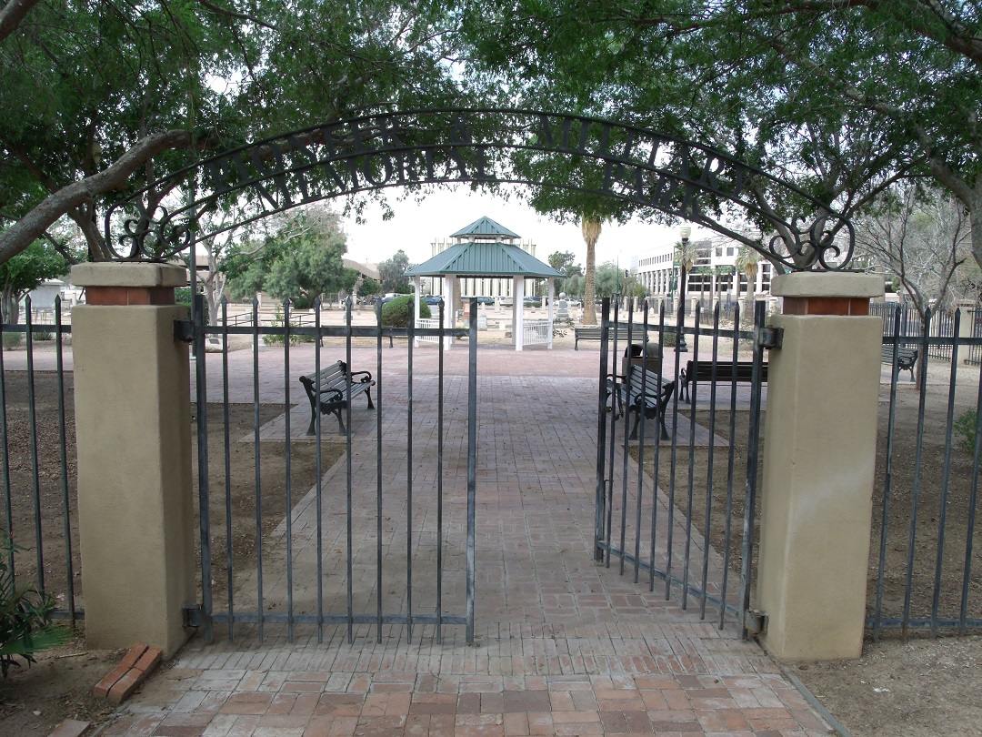 Entrance of the historic Pioneer Military and Memorial Park. The Cemetery dates back to the 1850's. The Pioneer & Military Memorial Park was listed in the National Register of Historic Places on February 1, 2007, reference #06001317.